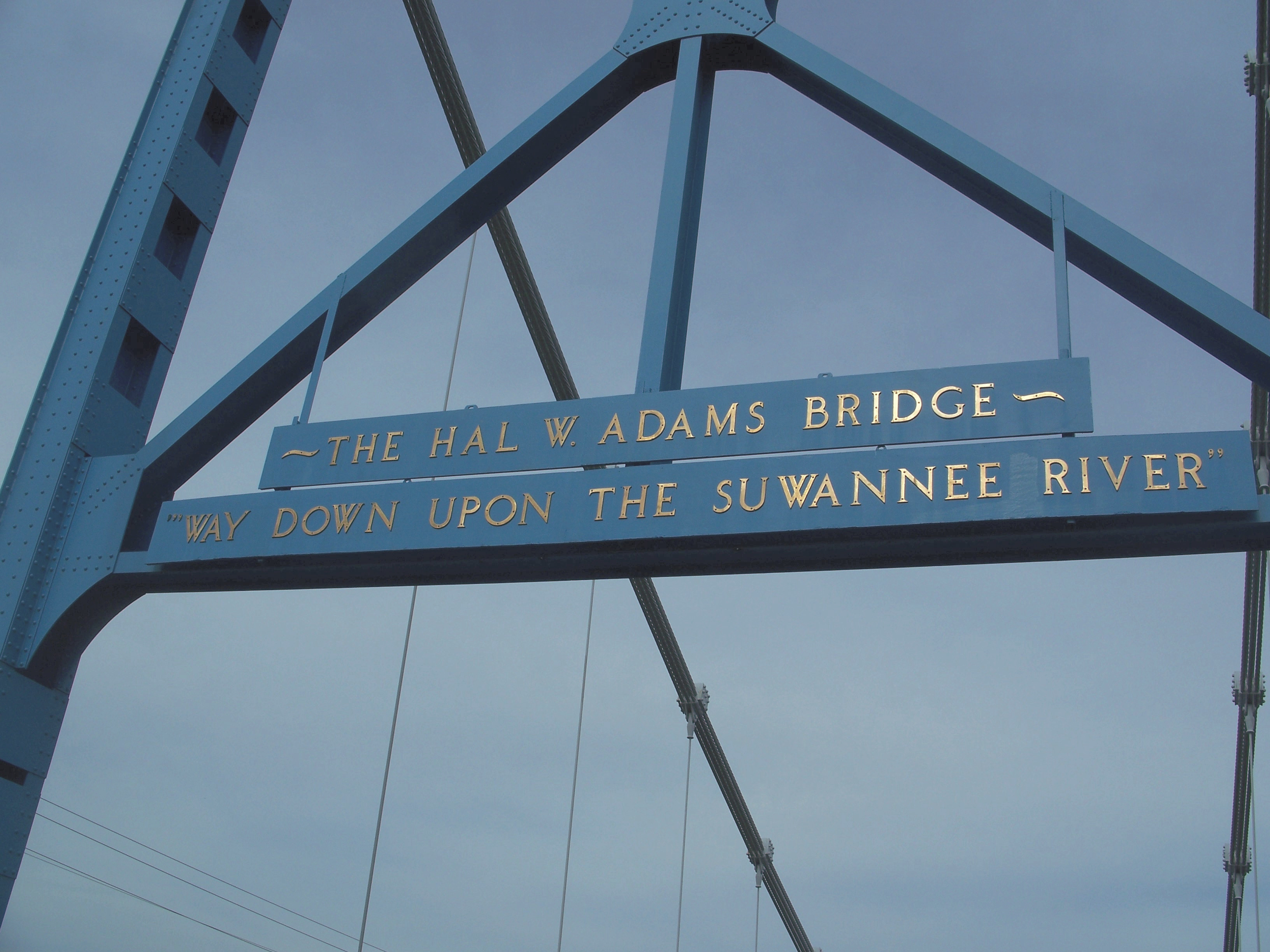 Luraville, Florida: Sign on the Hal W. Adams Bridge.